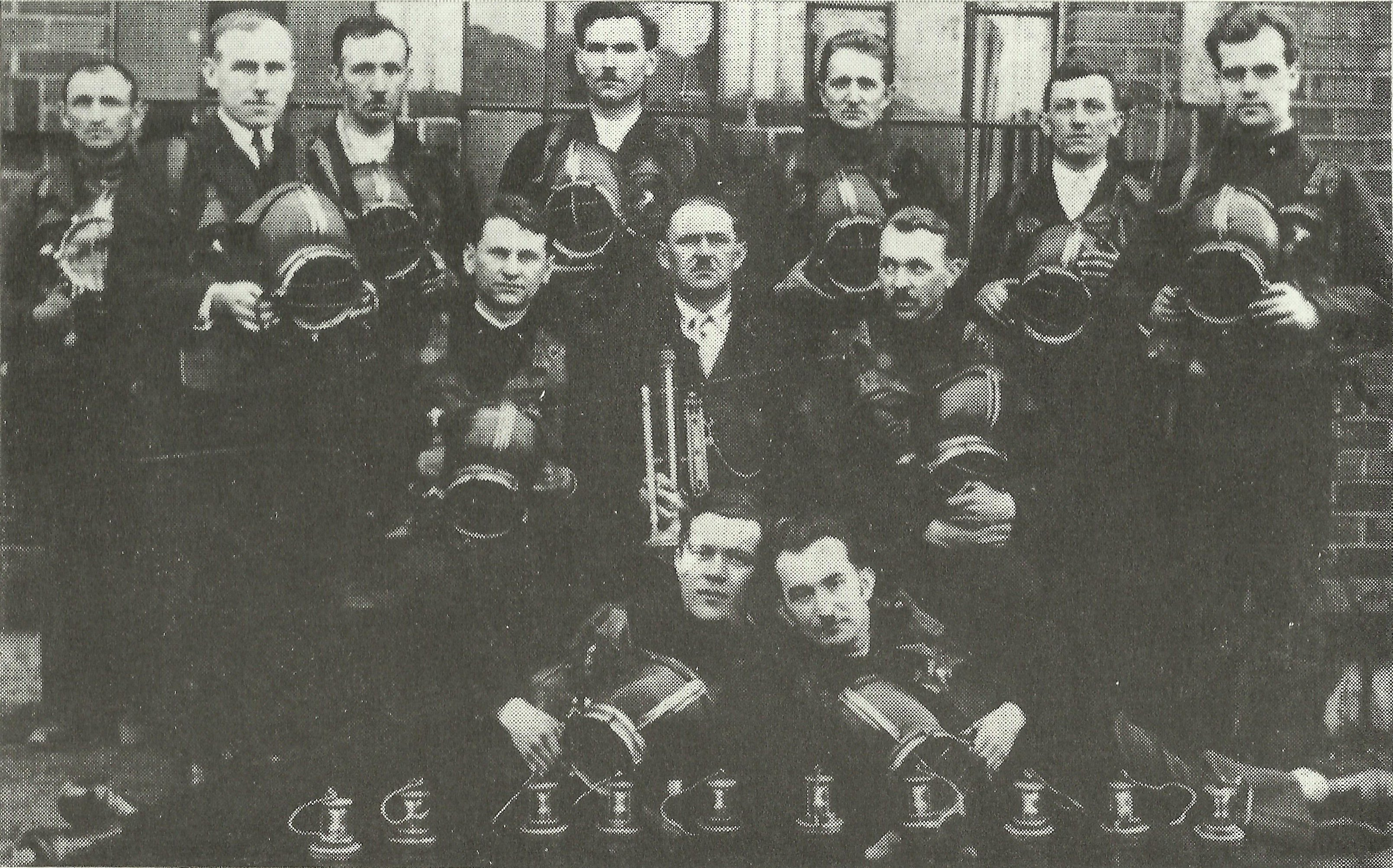 The mining rescue service team in František Mine (Horní Suchá, Czech Republic, year 1938)